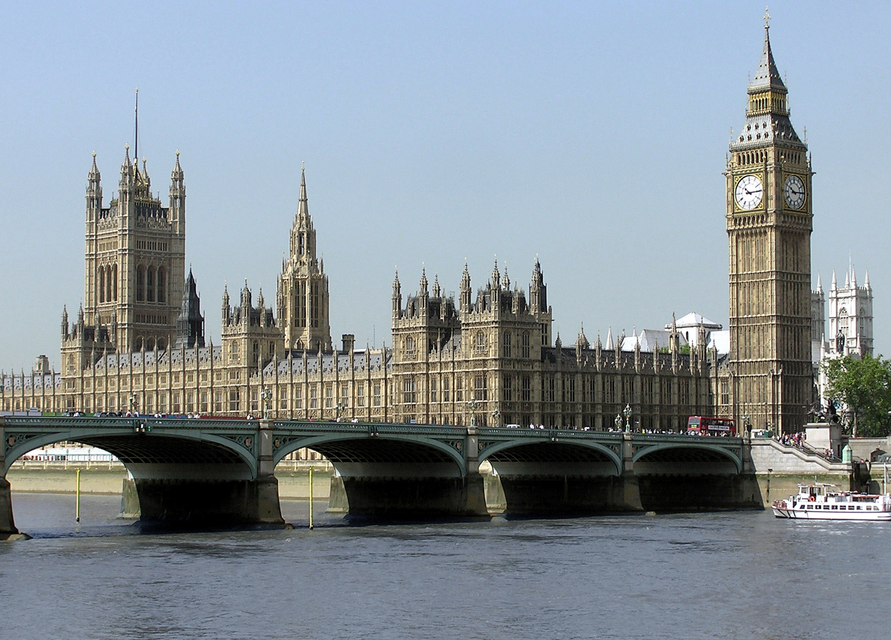 This image has been (or is hereby) released into the public domain by its author, Arpingstone. This applies worldwide.